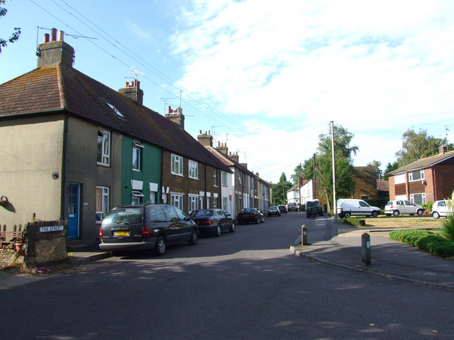 The Street, Upchurch